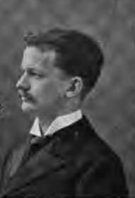 Portrait of New York assemblyman James W. Husted, son of Speaker James W. Husted